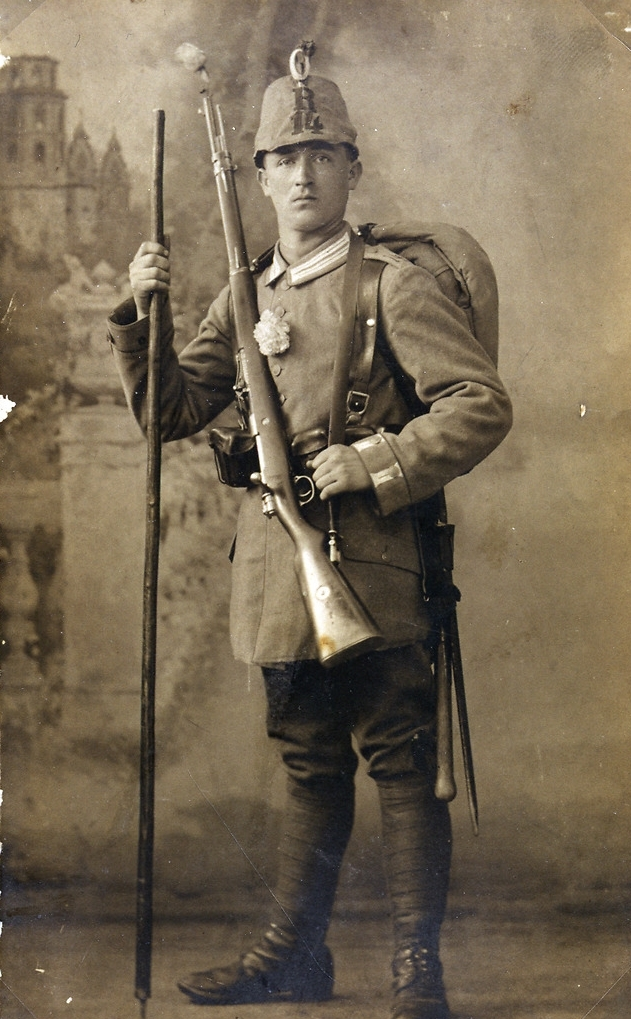 Jägerregiment 14